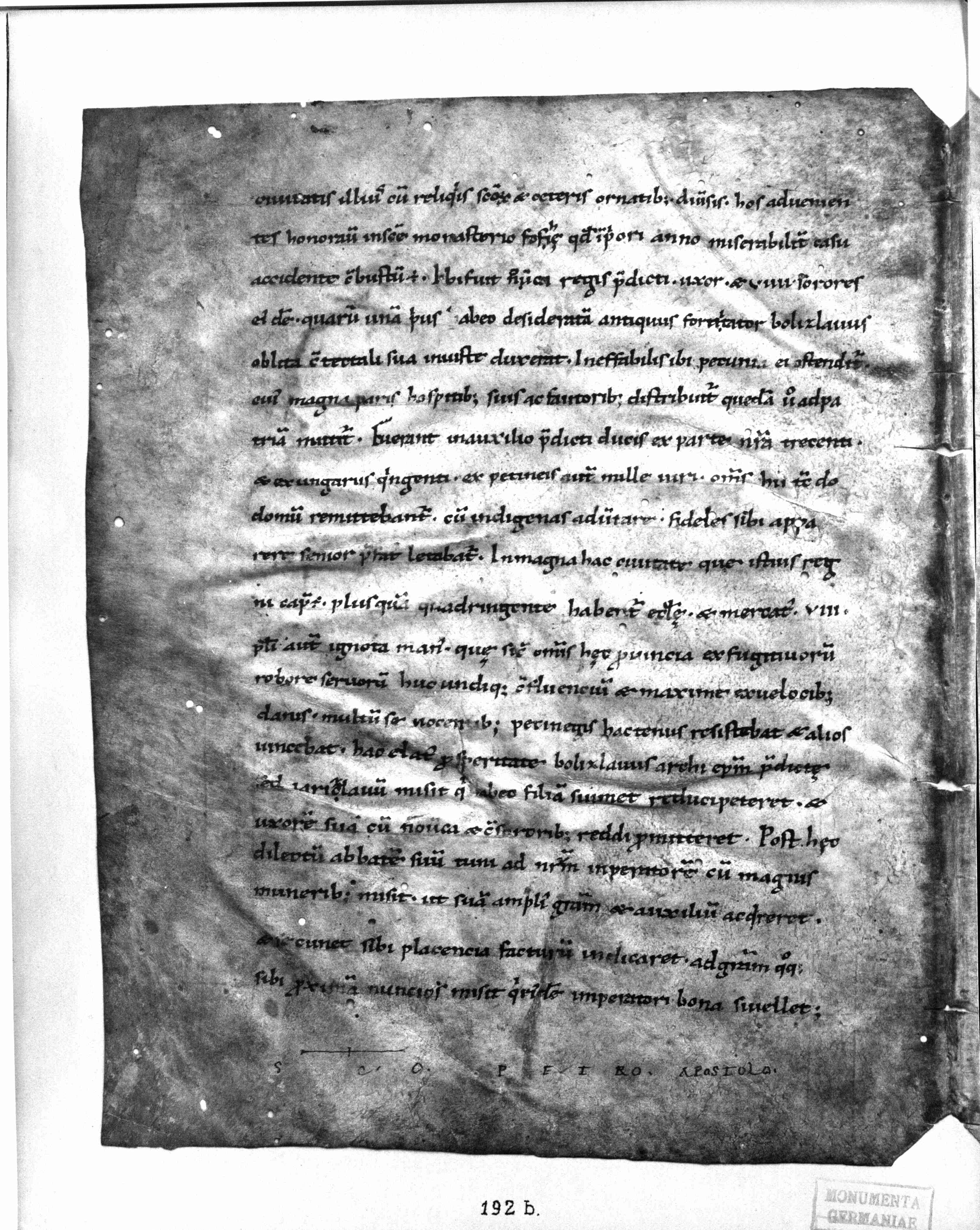 Page 192v of "Thietmari merseburgiensis episcopi chronicon".